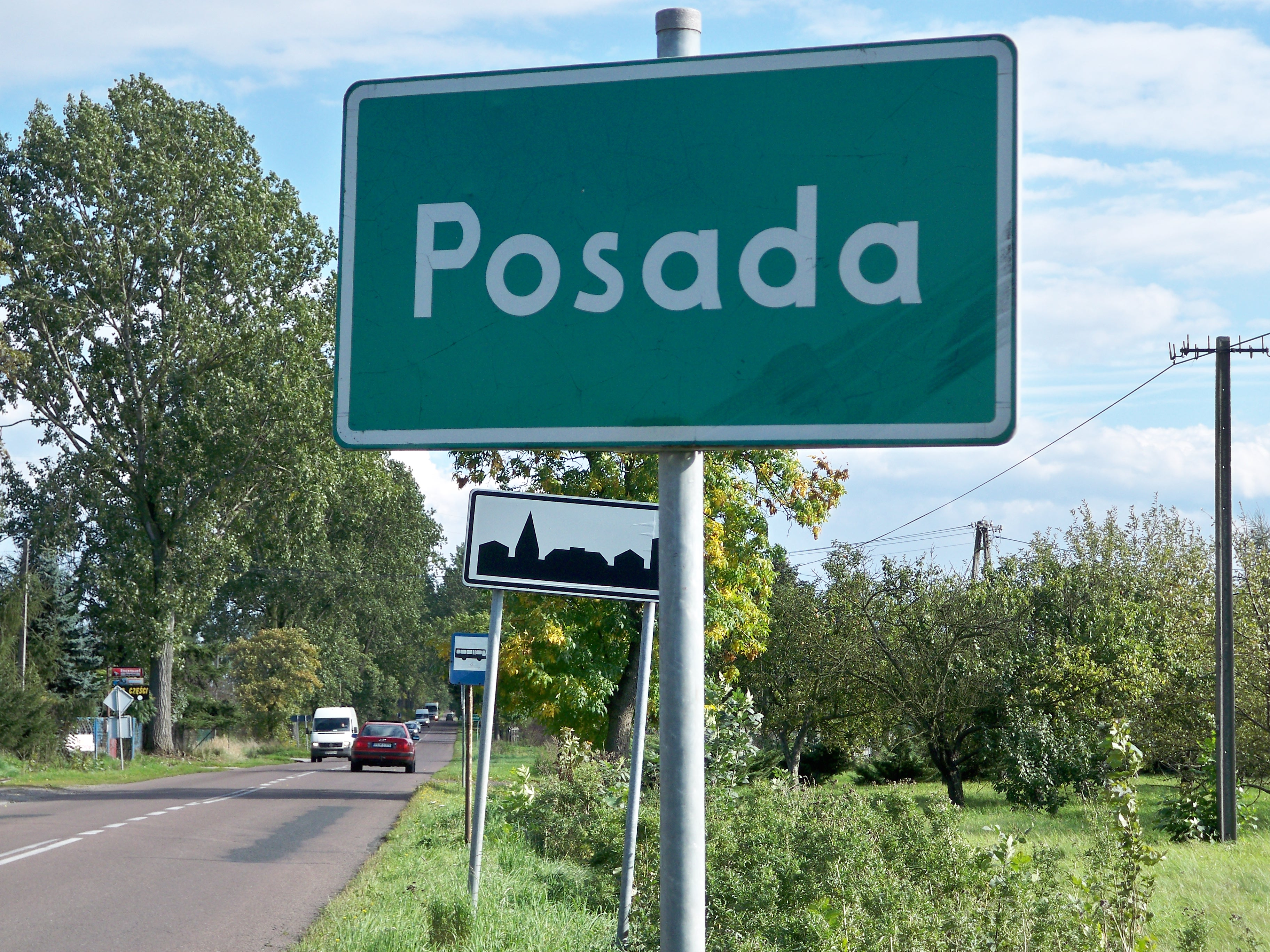 My photo